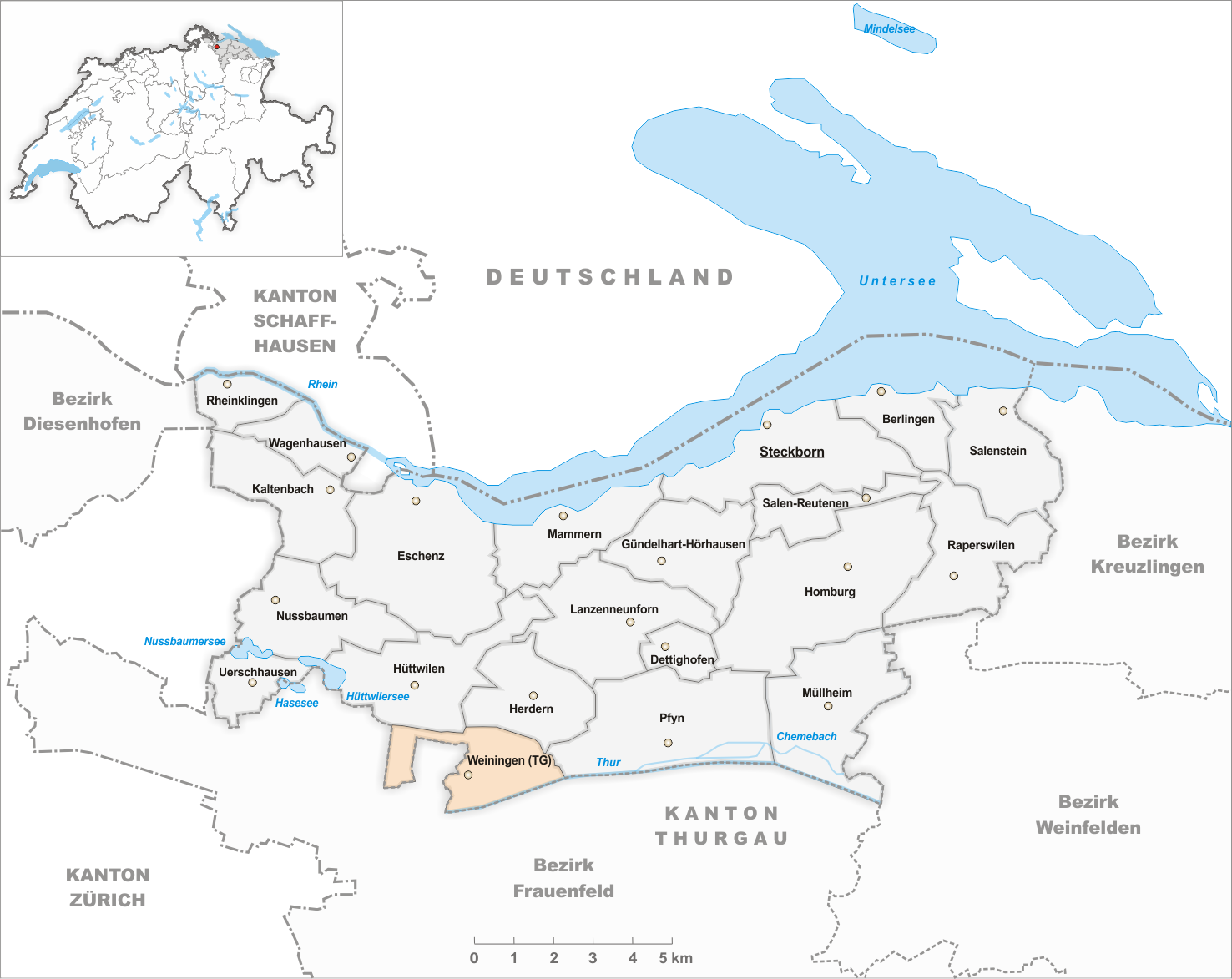 Municipality Weiningen